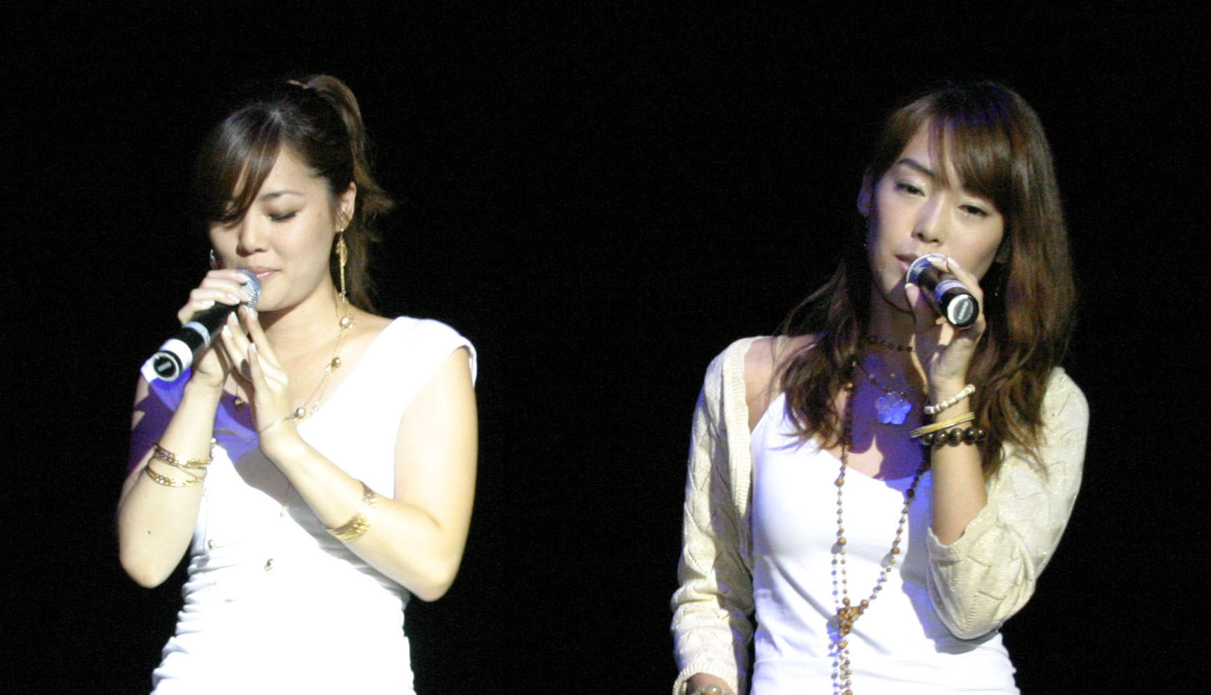 K-POp group As One